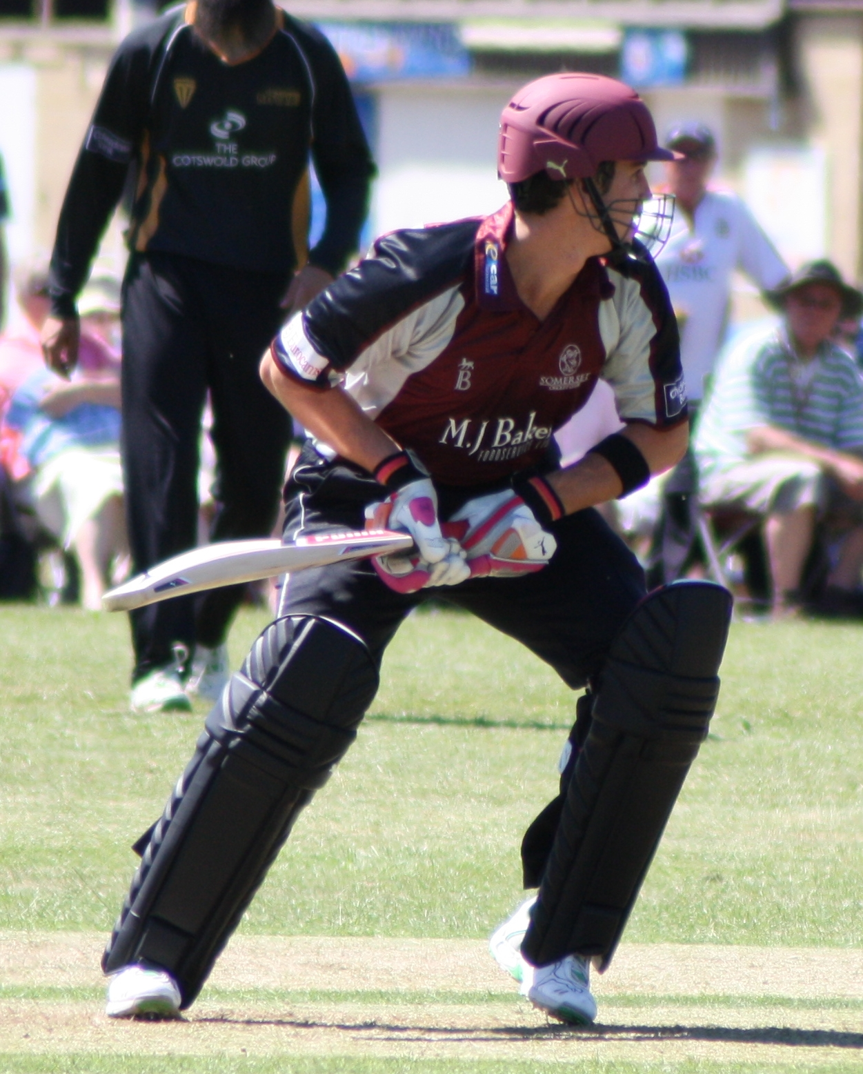 Craig Kieswetter batting for Somerset in a Clydesdale Bank 40 match against Worcestershire at the Recreation Ground, Bath